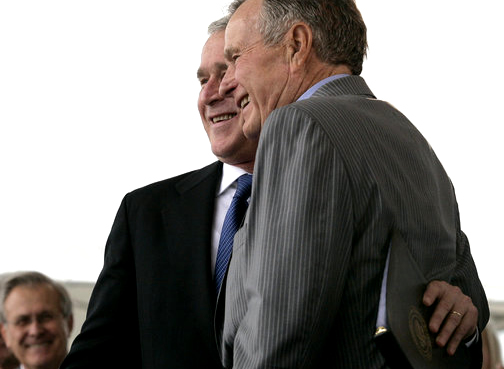 George Walker Bush, 43rd President of the United States, and his father Former 41st President Gerorge Herbert Walker Bush, at the christening ceremony of USS George H. W. Bush, which is expected to enter service in 2008. Donald Rumsfeld in the background.